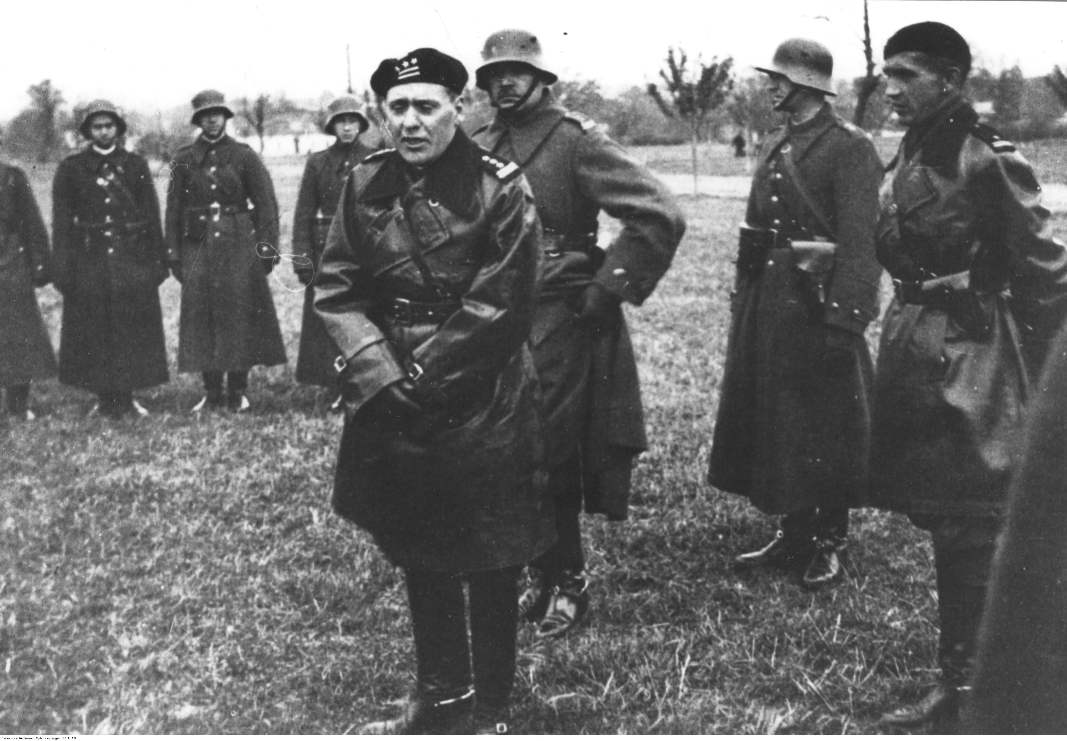 01938 10th Motorized Cavalry Brigade (Poland), Zaolzie, col. Stanisław Maczek.